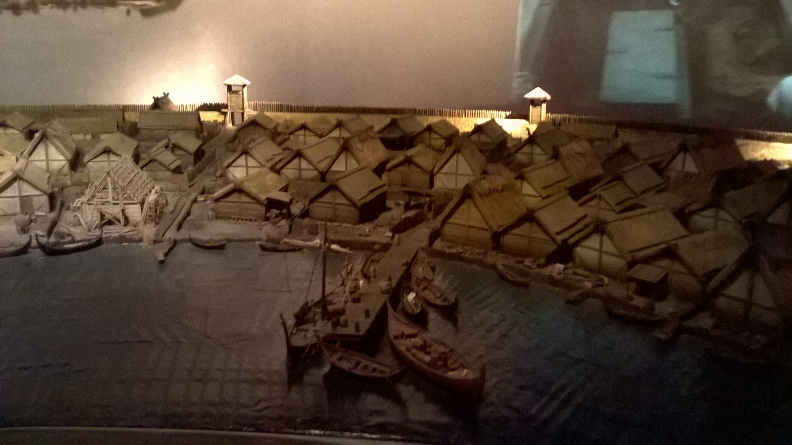 Reconstruction of medieval town Birka4 at Swedish History Museum Stockholm